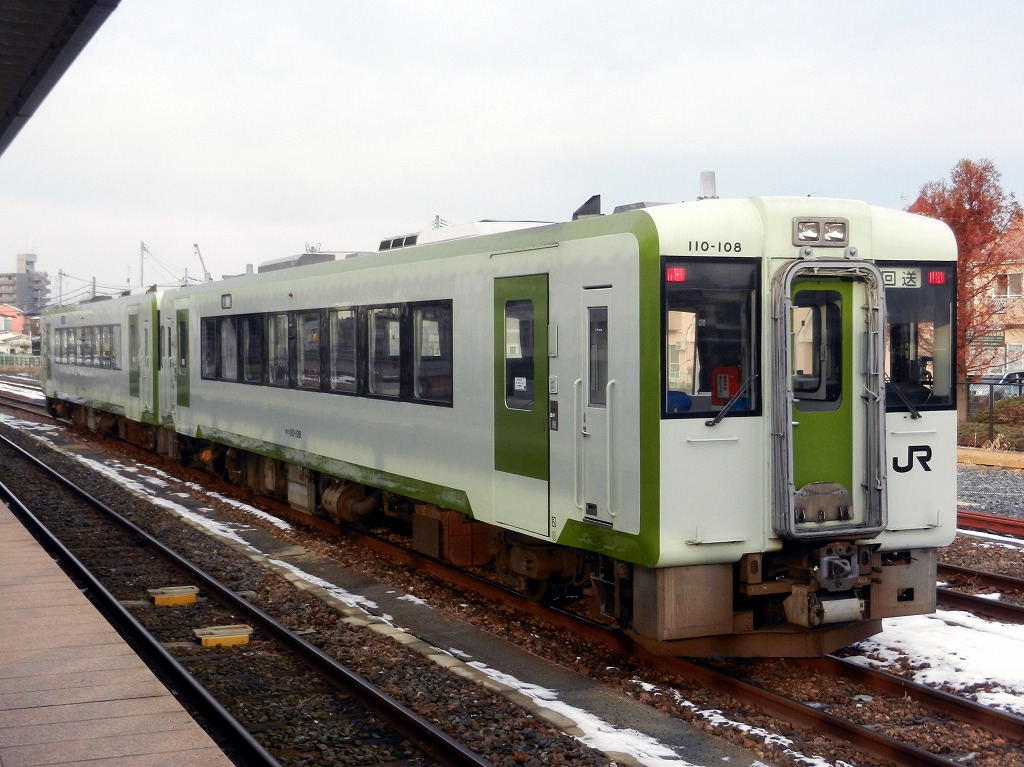 A pair of JR East KiHa 110-100 series DMU cars, including KiHa 110-108, stabled at Ishinomaki Station